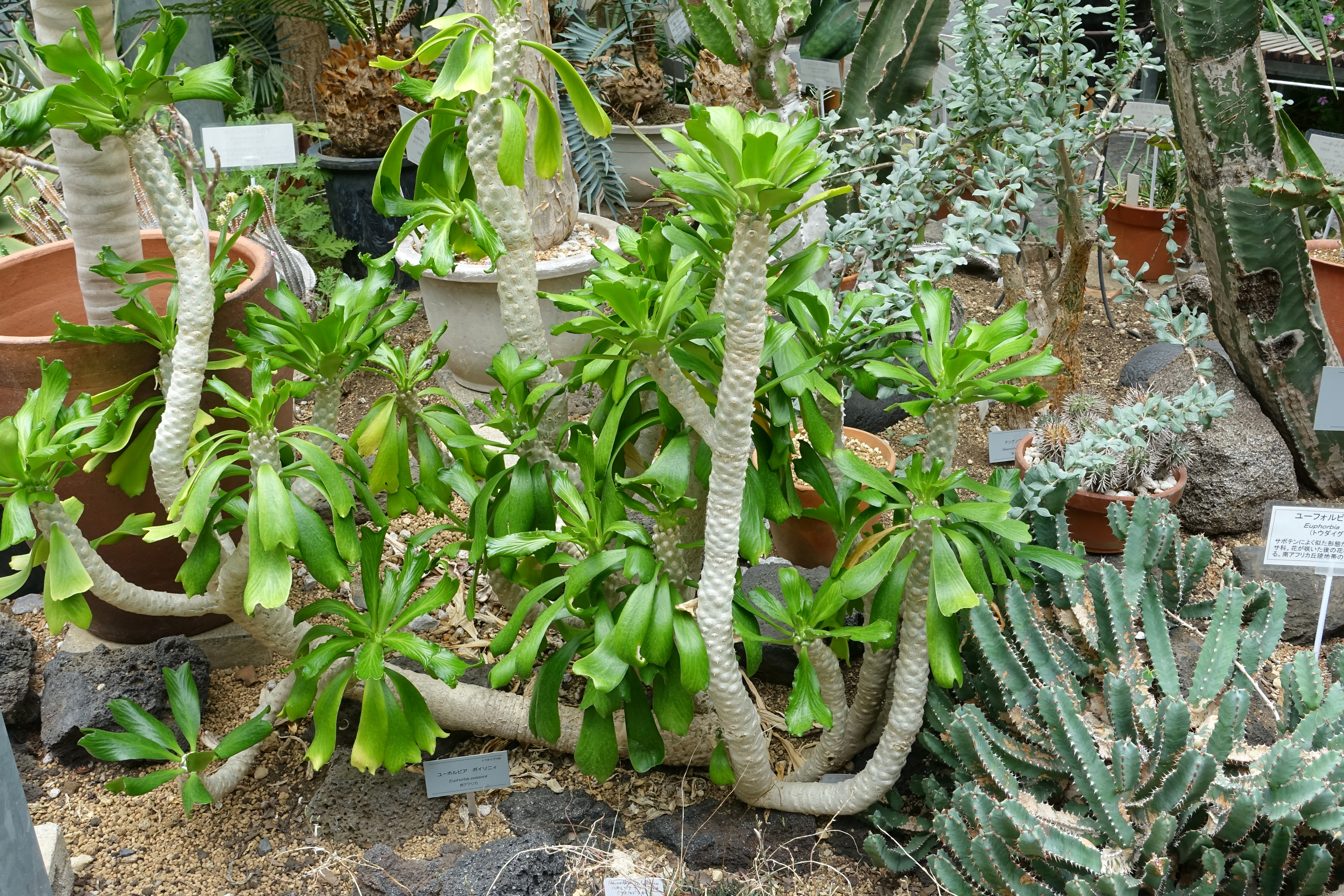 Botanical specimen of Euphorbia poissonii in the Food and Agriculture Museum - Setagaya, Tokyo, Japan.